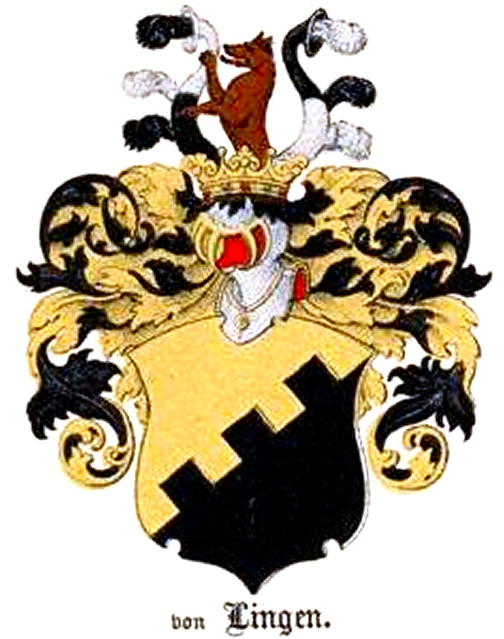 Coat of arms of von Lingen family